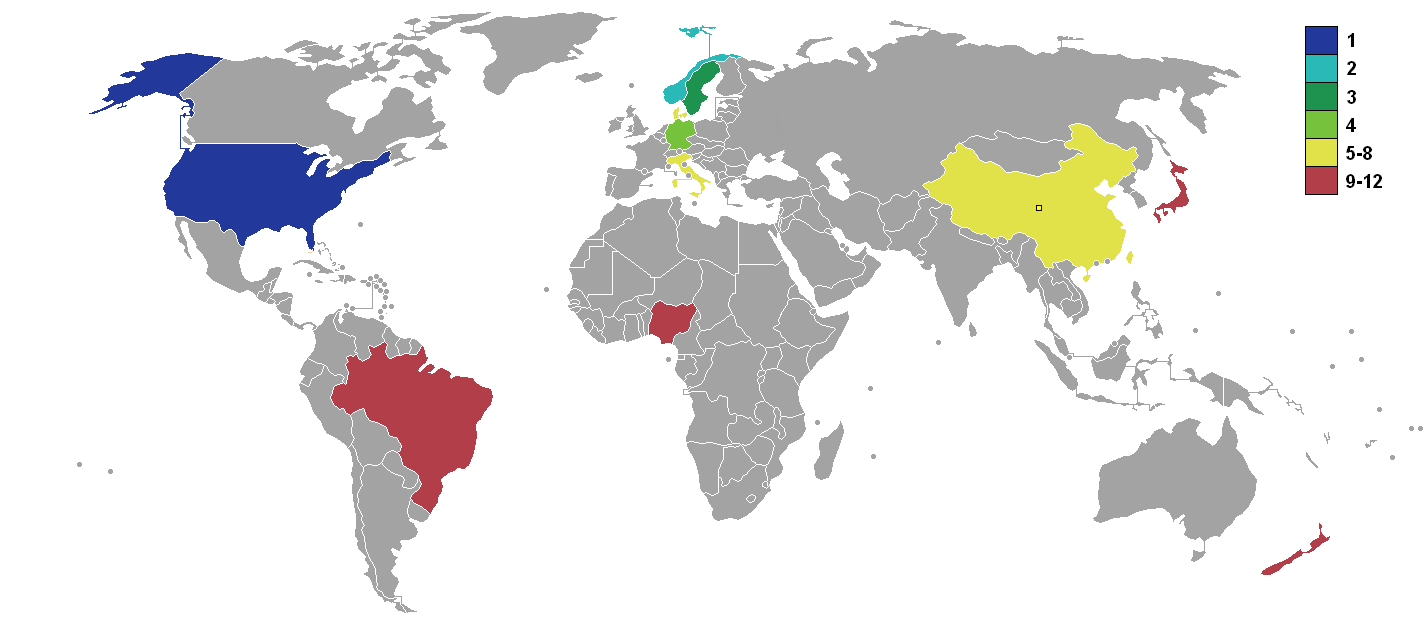 Final rankings of the teams on FIFA Womens World Cup 1991, showing: winner = dark blue runner-up = light blue third = dark green fourth = light green quarterfinals = yellow group stage = red yellow square = host nation (China)